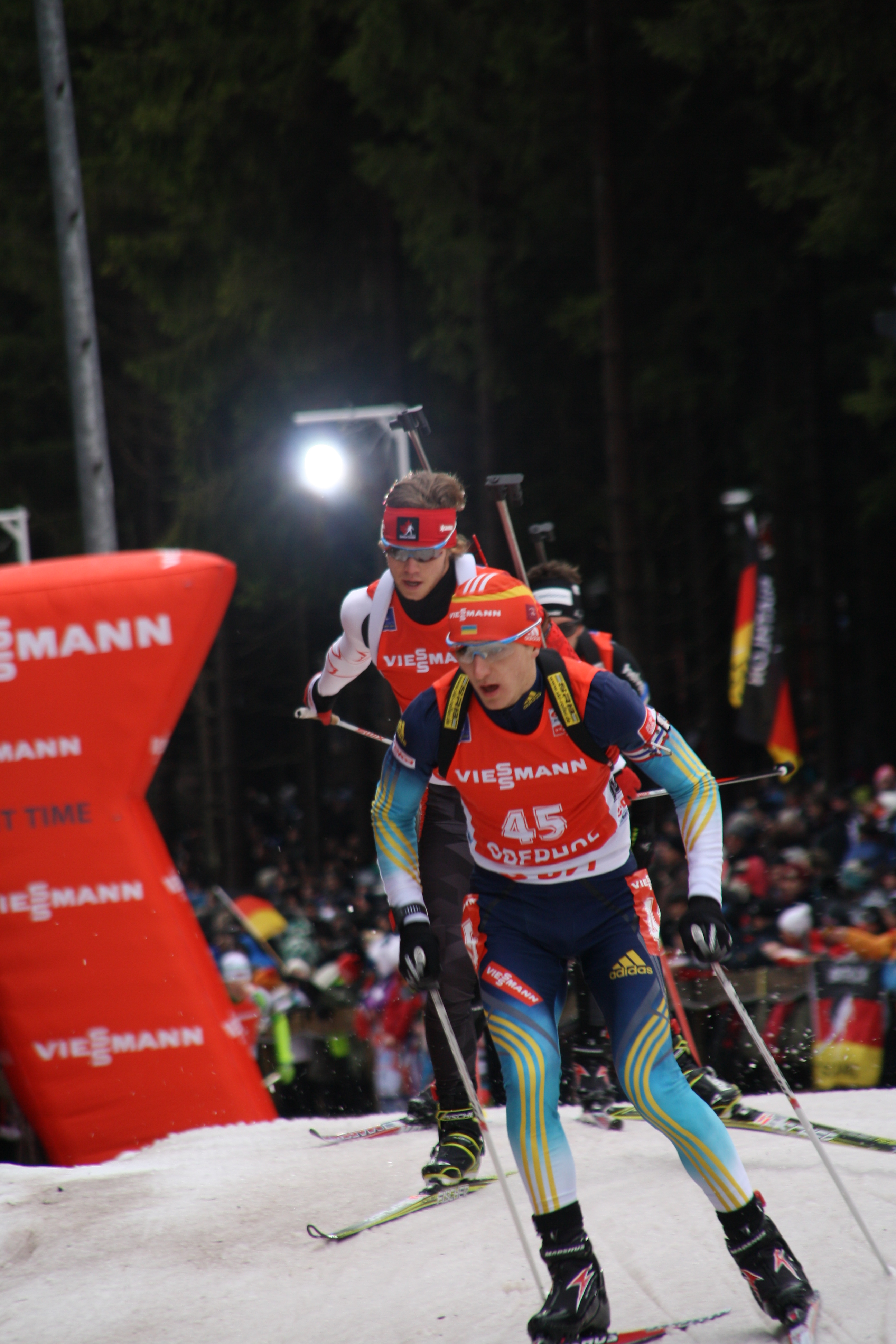 Biathlon World Cup Oberhof 2014 - Mens Pursuit